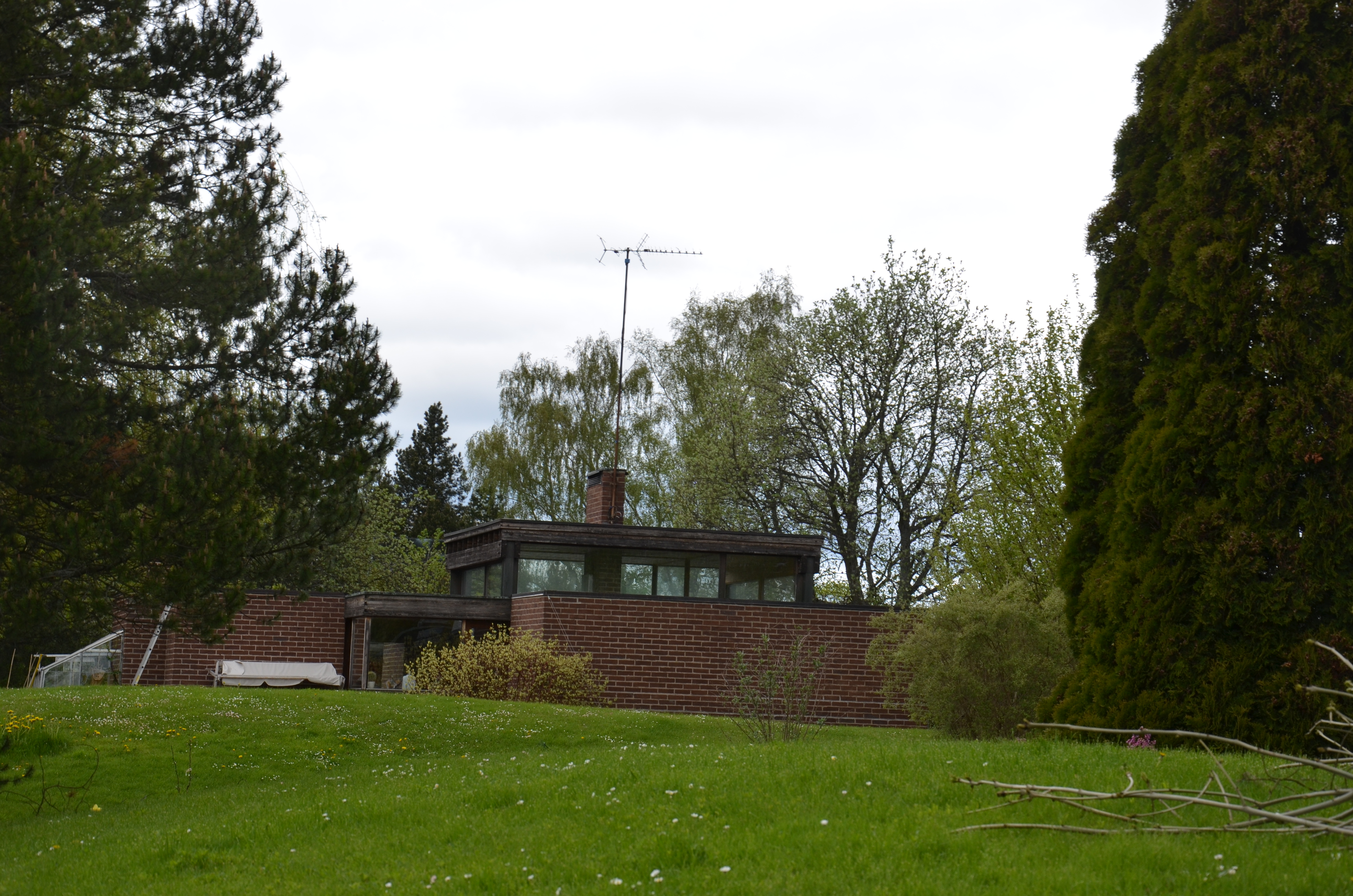 NU64 house, Nordengatan 15, Villa Norrköping in Norrköping, drafted by Norwegian architect Sverre Fehn